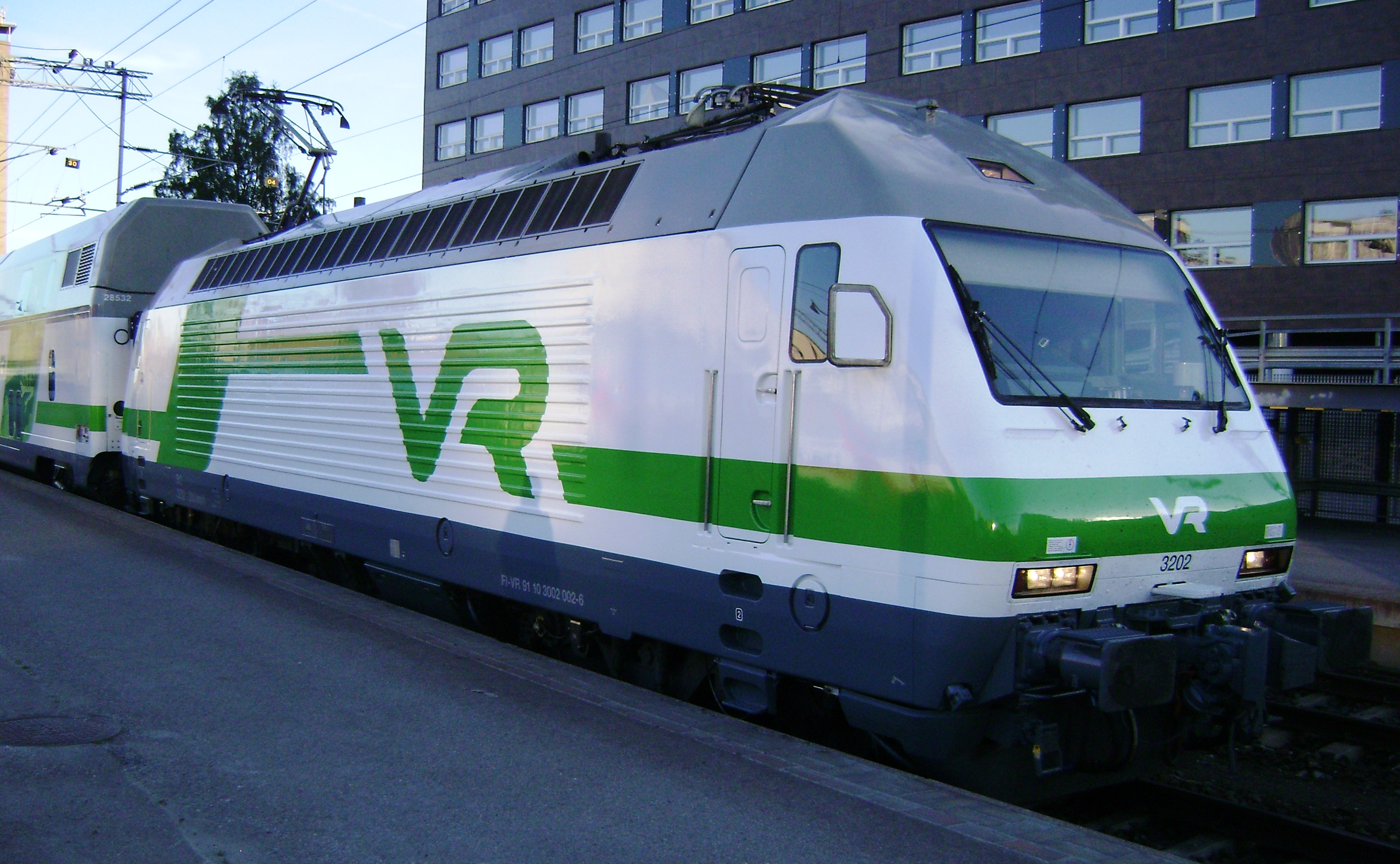 VR Class Sr2 locomotive number 3202 at Tampere railway station hauling the Midsummer Train.